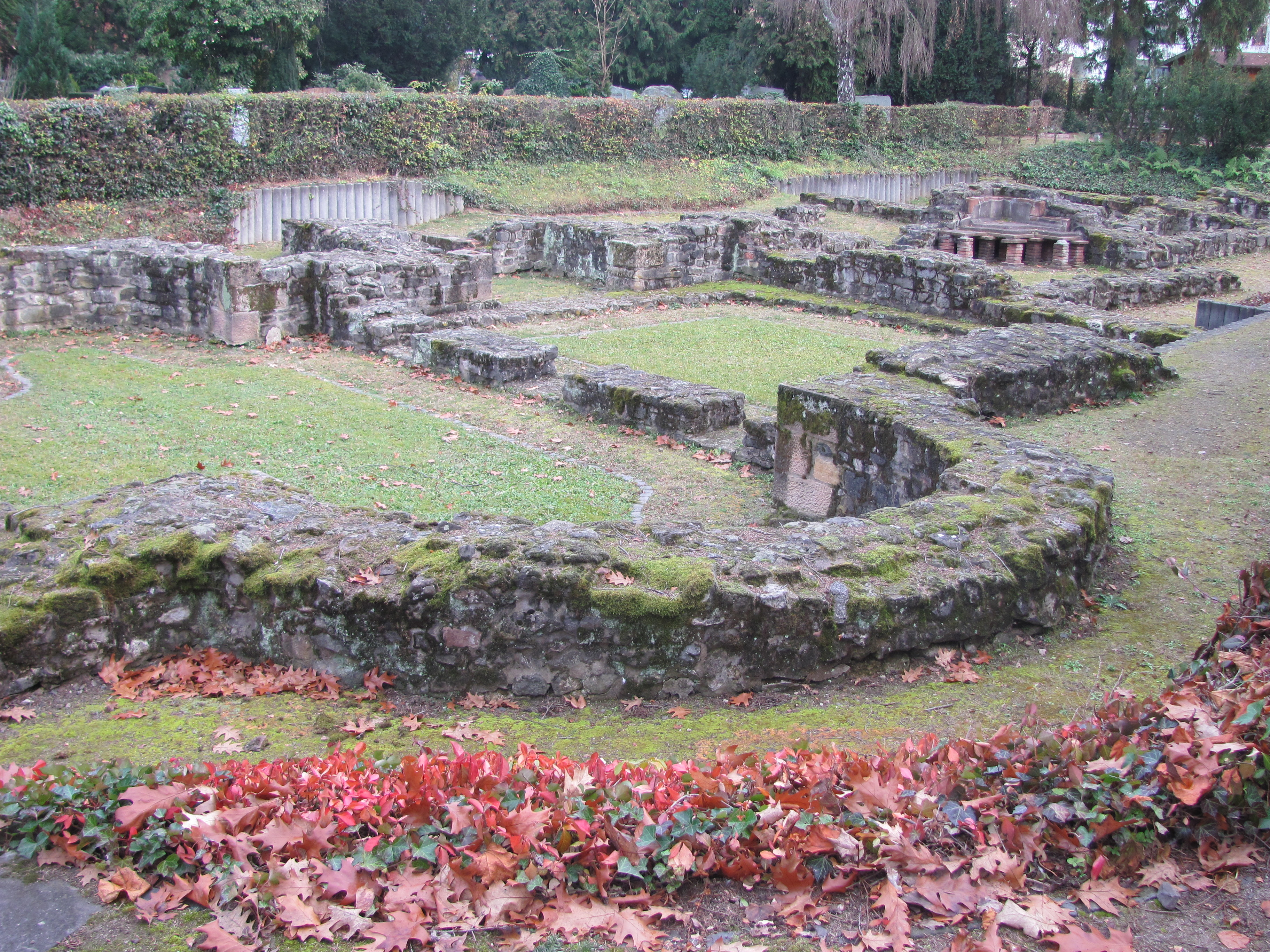 Roman bath of Fort Salisberg, Hanau-Kesselstadt